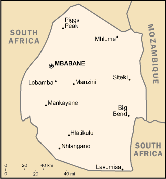 Map of Ewatini, showing major towns.